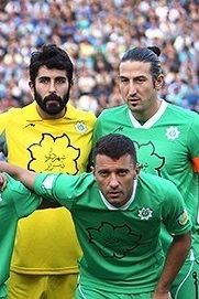 Esteghlal vs. Machine Sazi IPL match